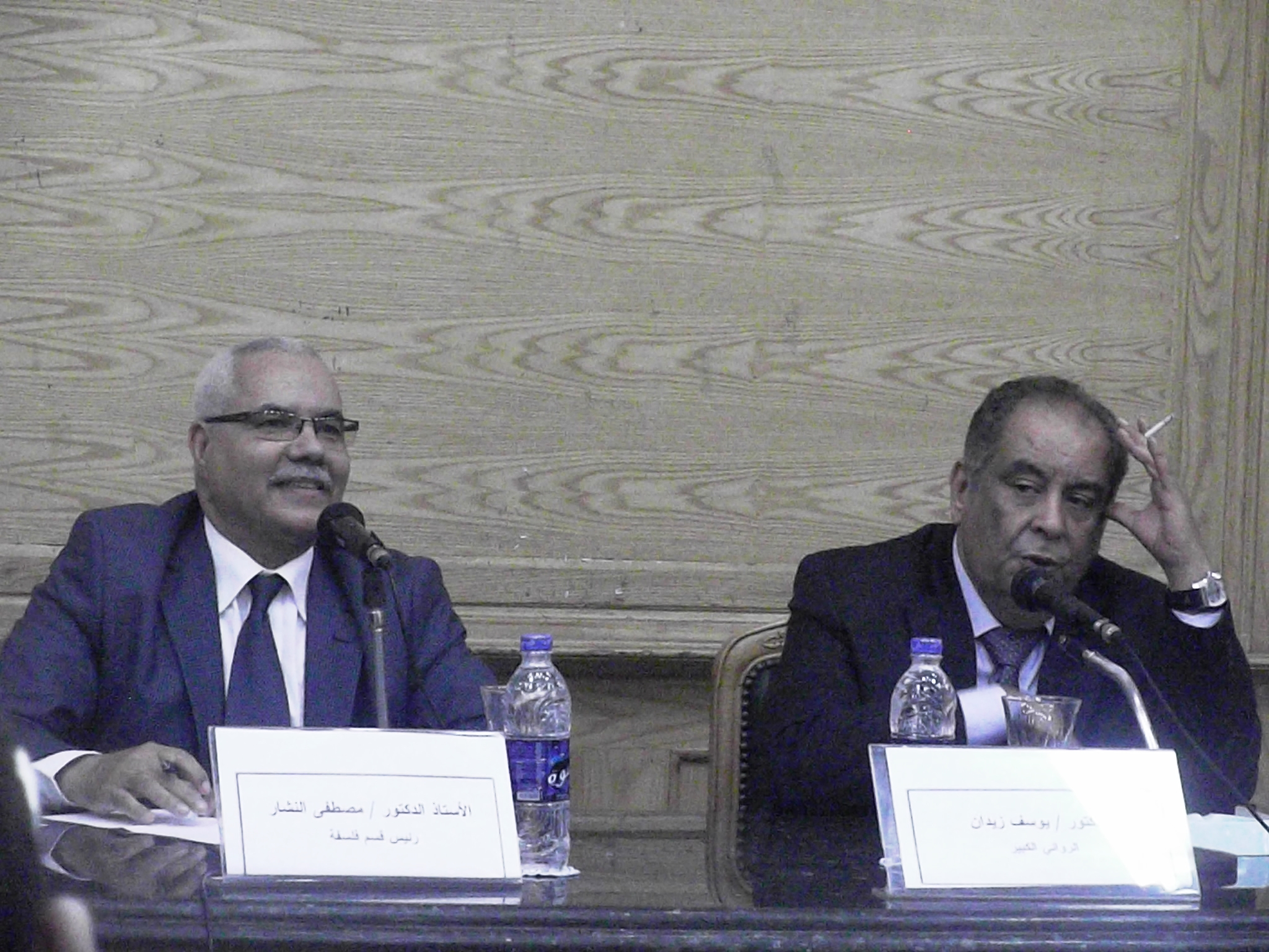 Egyptian philosopher Mostafa El Nashar